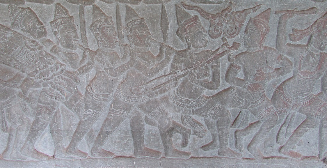 ancient khmer army band depicted on the bas-relief of angkor wat. They would go in to battle with the troops. Their musical traditional is the inspiration for modern pradal serey fight music.